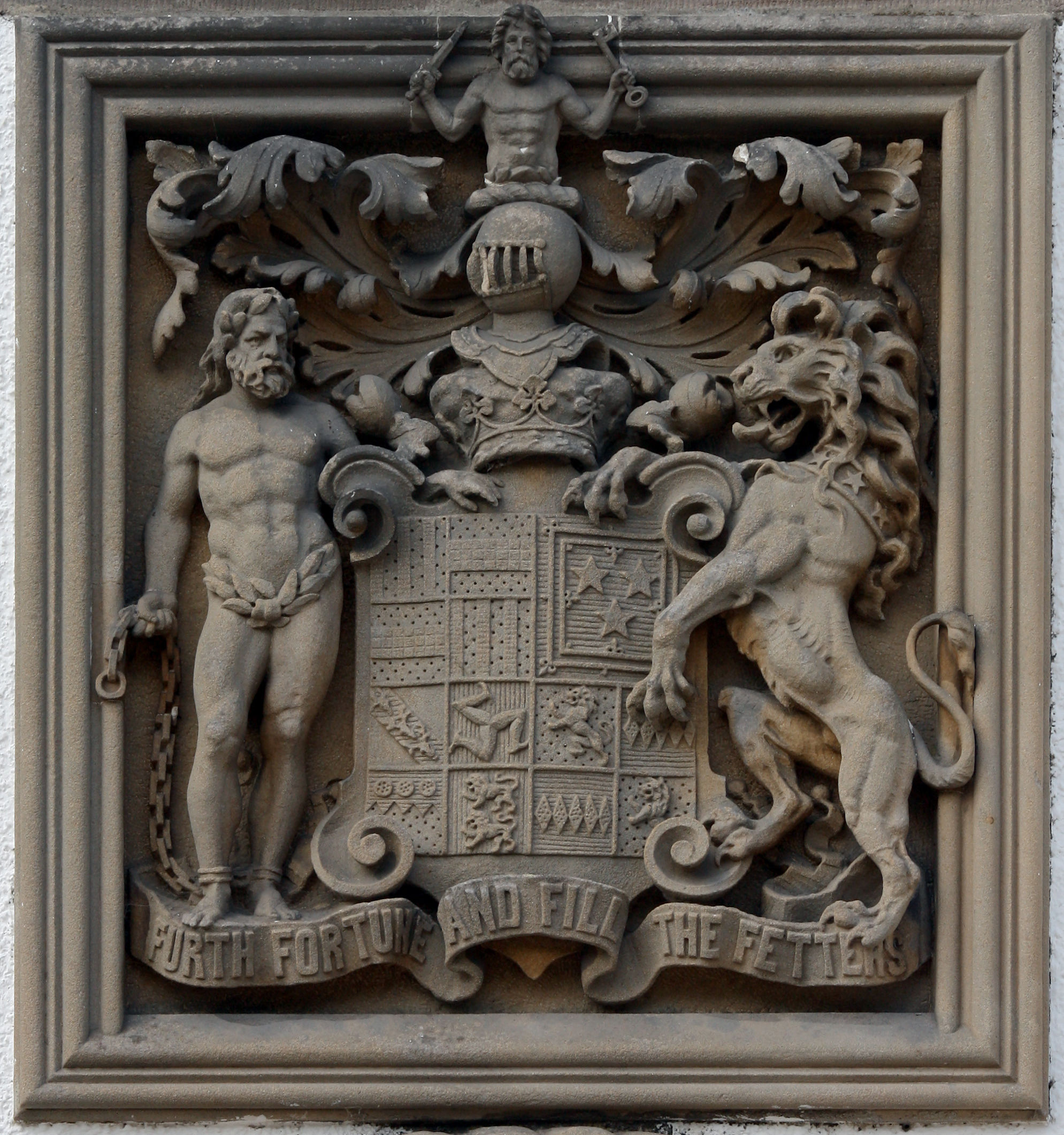 The coat of arms of the dukes of Atholl above the entry gate of Blair Castle, in Scotland.